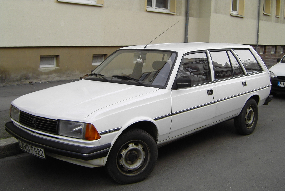 White Peugeot 305